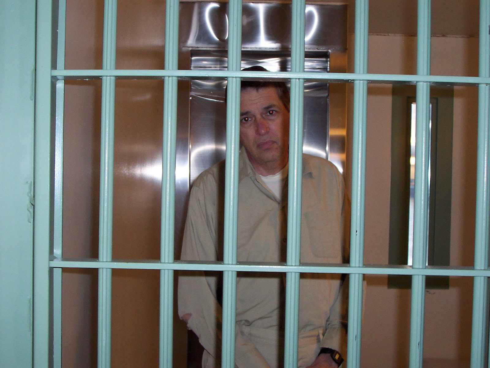 Robert Hanssen behind bars in ADX Florence